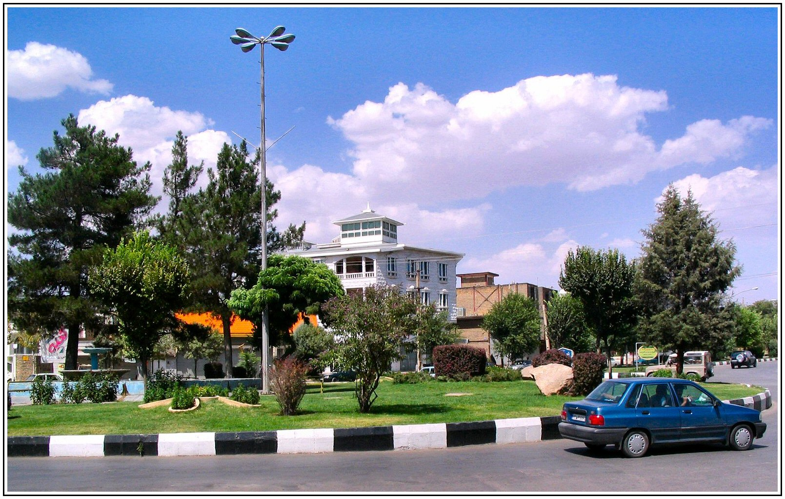 Yadbood Crossroad in Borujerd City